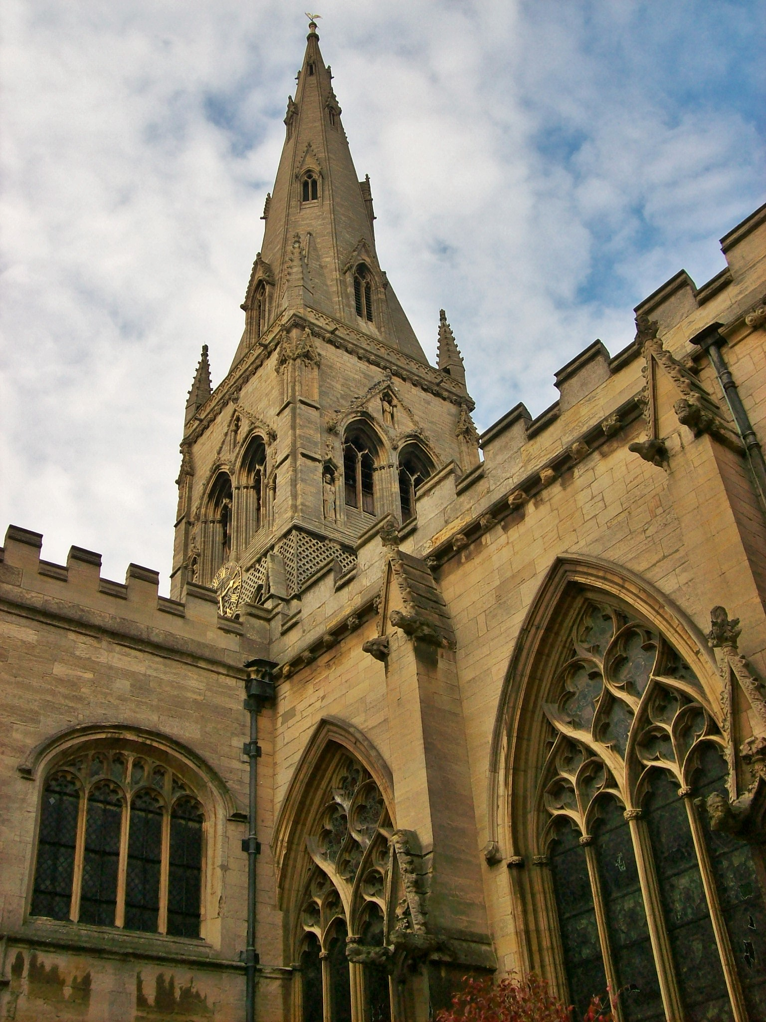 West tower and spire of St Mary Magdalene parish church, Newark, Nottinghamshire